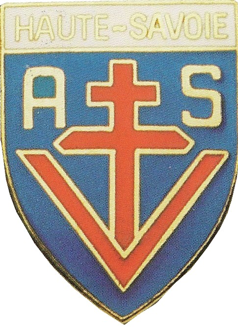 Medal